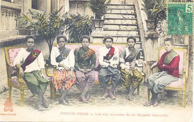 The court lady during Sisowath of Cambodia in the late 1800s.